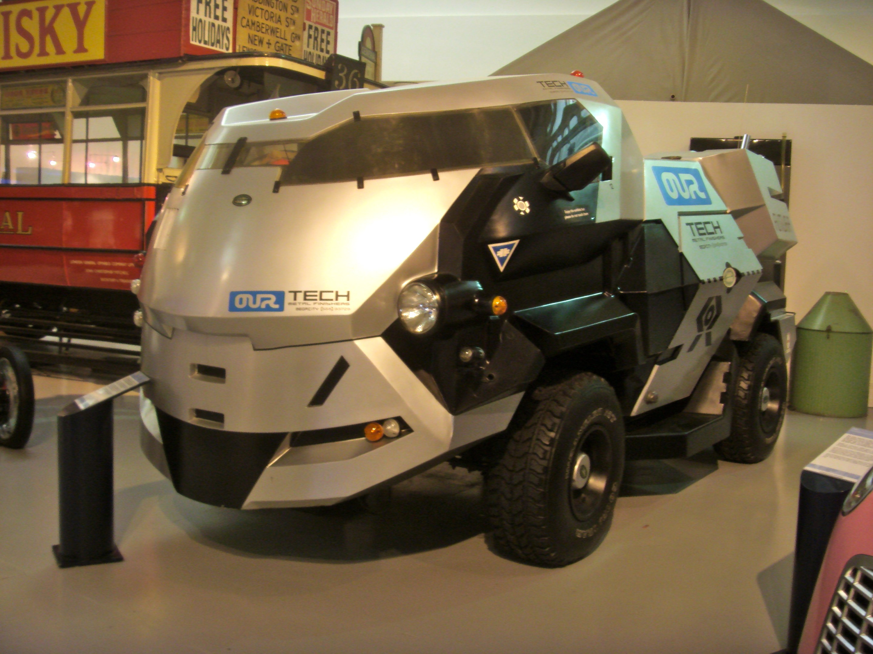 Custom made Land Rover for the movie Judge Dredd